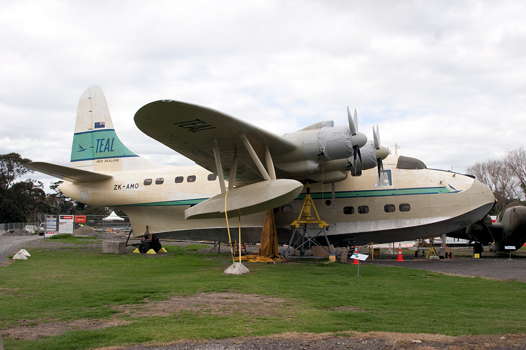 Short S.45 Solent 4 ZK-AMO